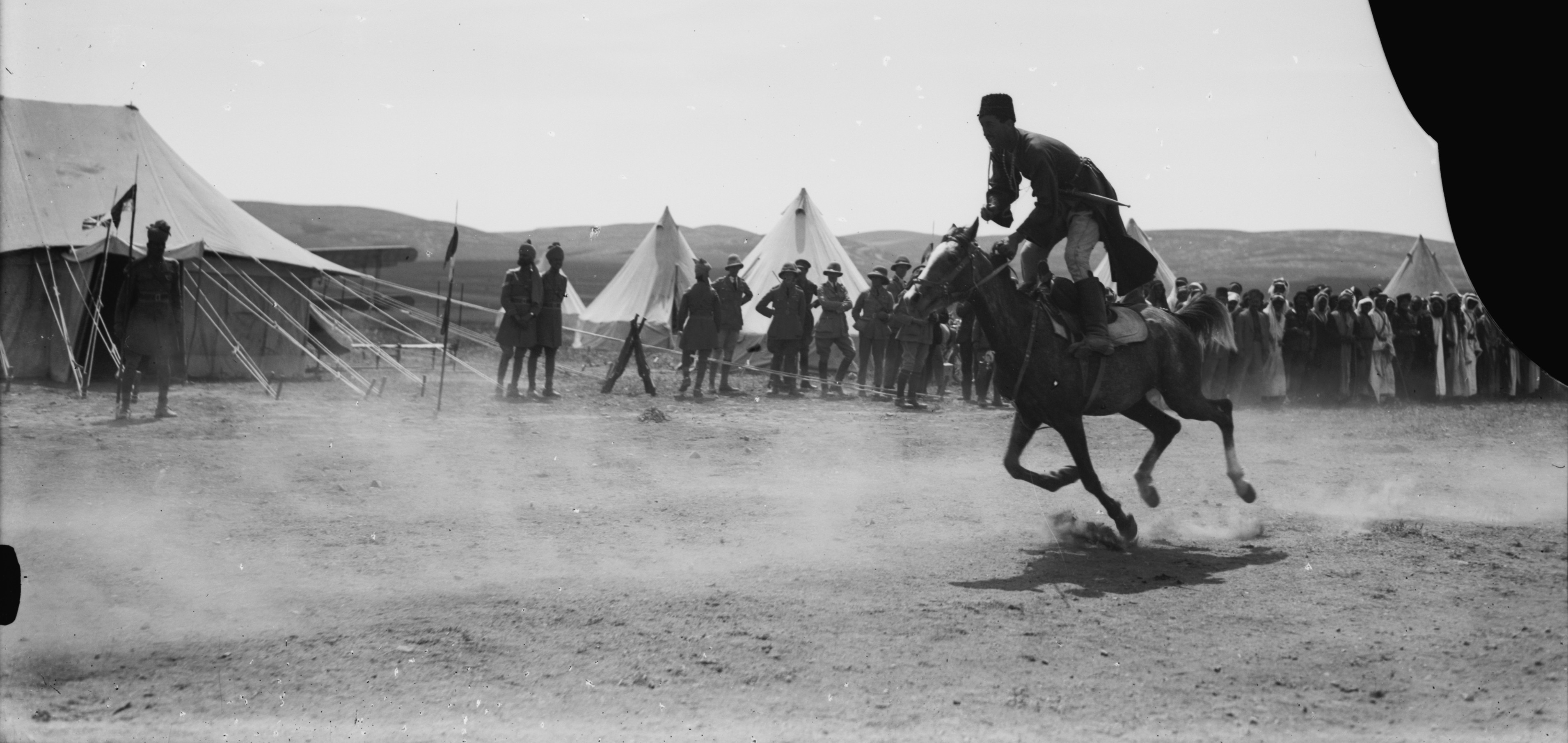 Sir Herbert Samuel's second visit to Transjordan, etc. Circassian horsemanship